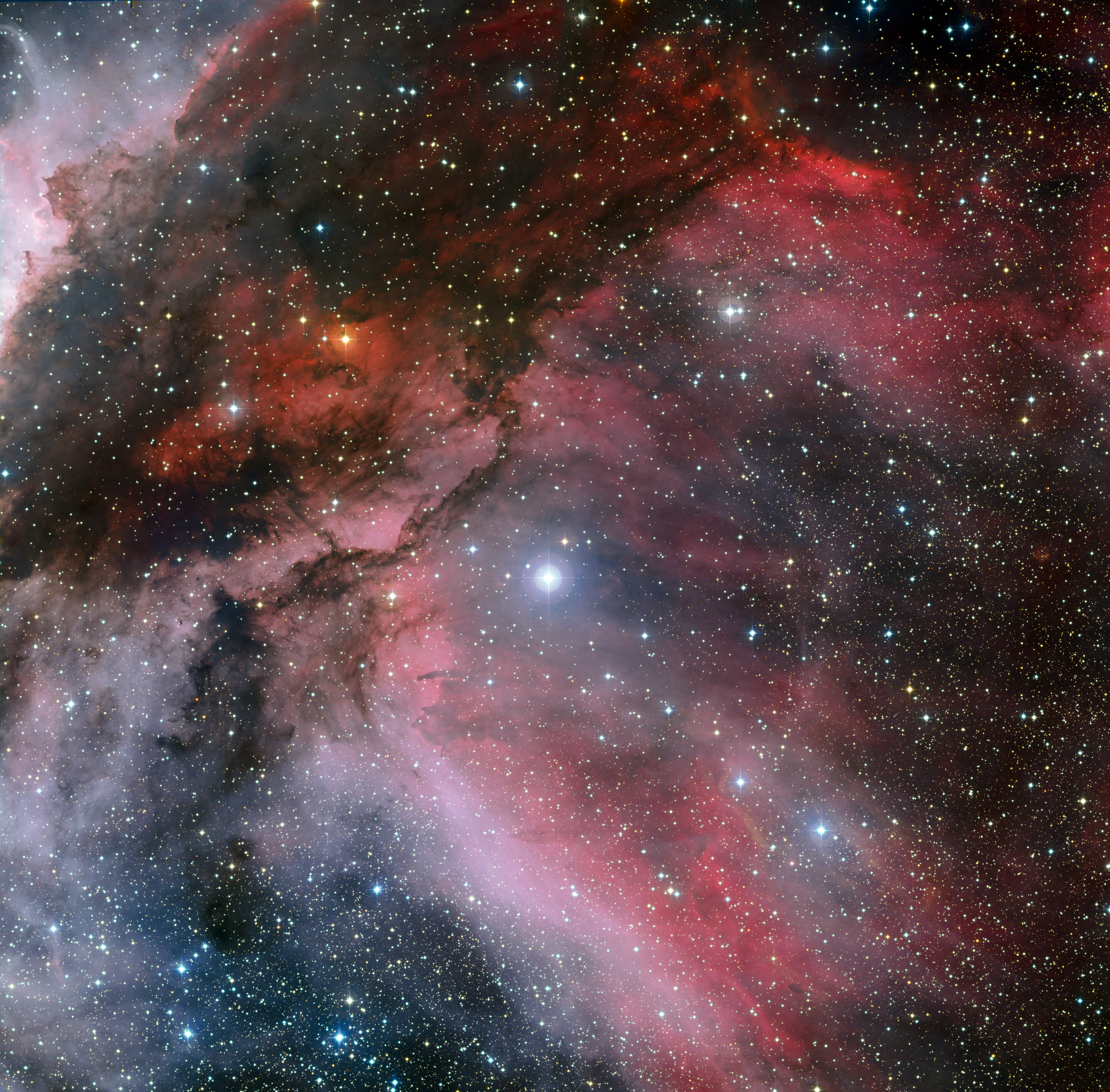 This image of part of the Carina Nebula was created from images taken through red, green and blue filters with the Wide Field Imager on the MPG/ESO 2.2-metre telescope at ESO’s La Silla Observatory in Chile. It is centred on the unusual hot massive young star WR 22, a member of the rare class of Wolf–Rayet stars. The field of view is 0.55 x 0.55 degrees, covering a 72 x 72 light-year region at the distance of the nebula.